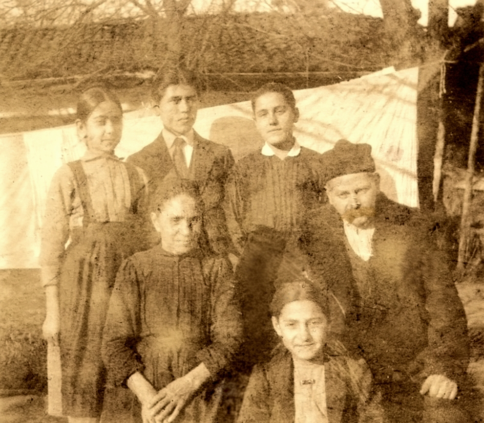 Andon Toshev with his family in Kyustendil 1915.